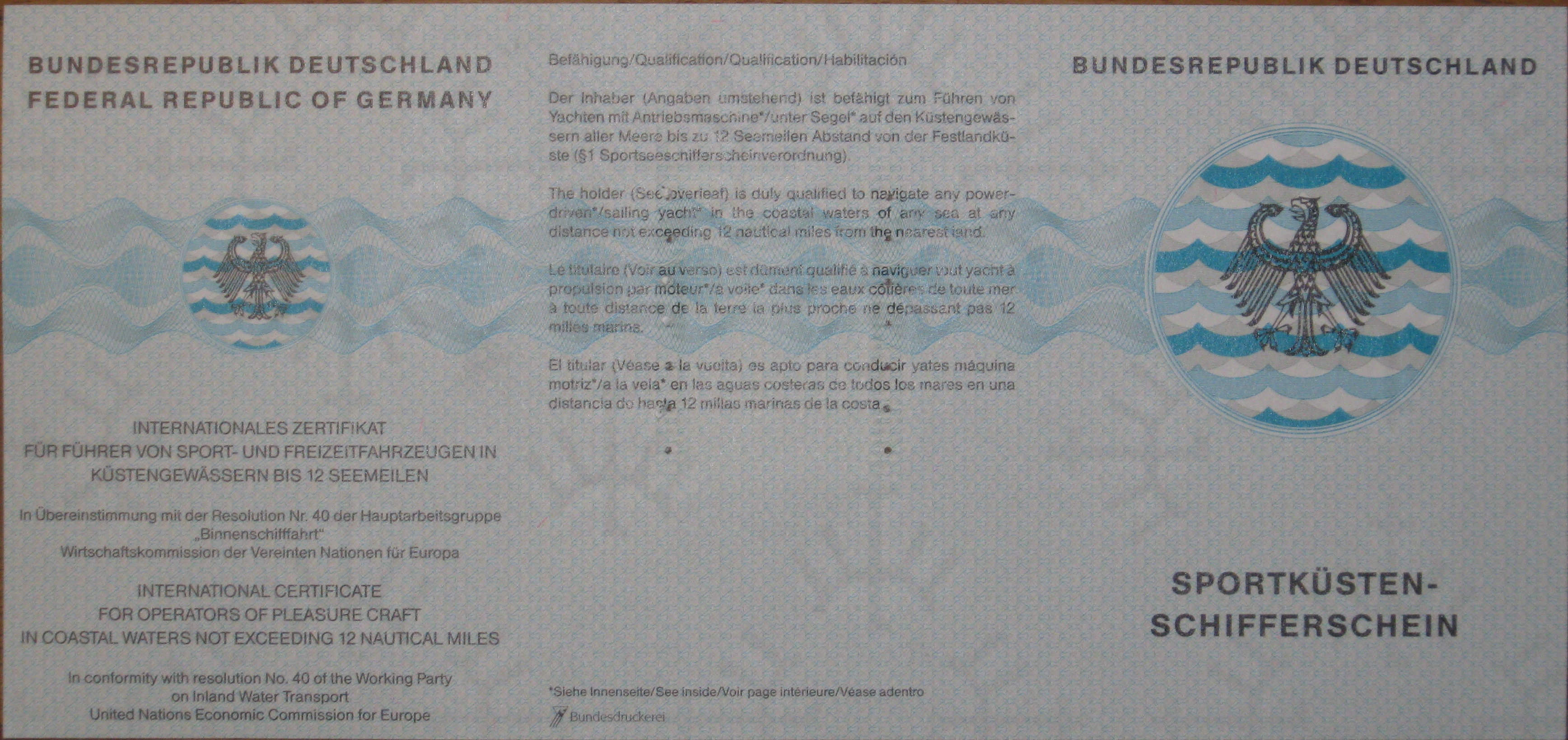 SKS außen